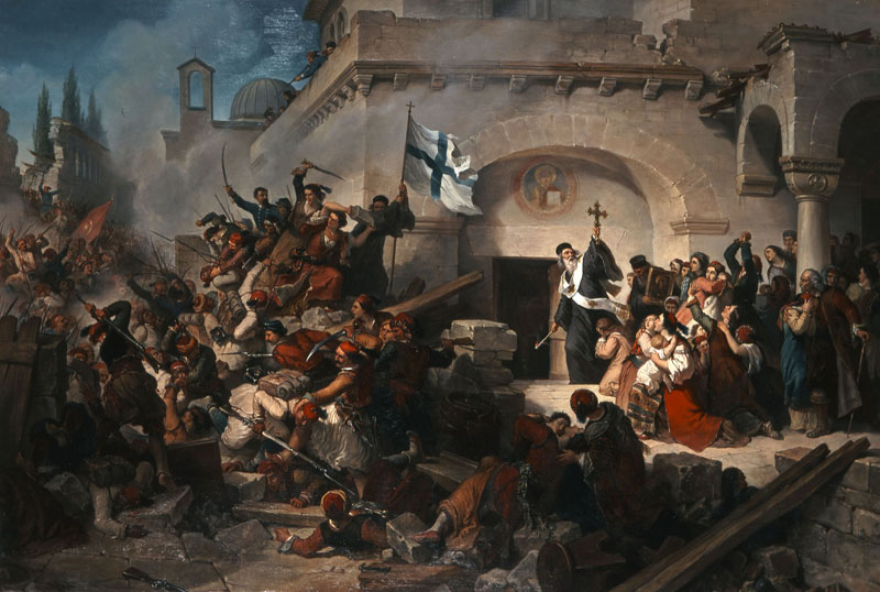 The Arcadian Holocaust by Giuseppe Lorenzo Gatteri (18 September 1829 - 1 December 1884)